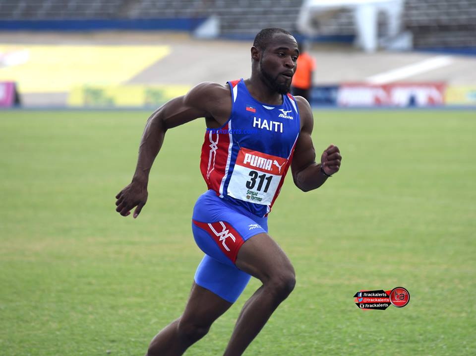 Darrell Wesh wins heat in the 100m